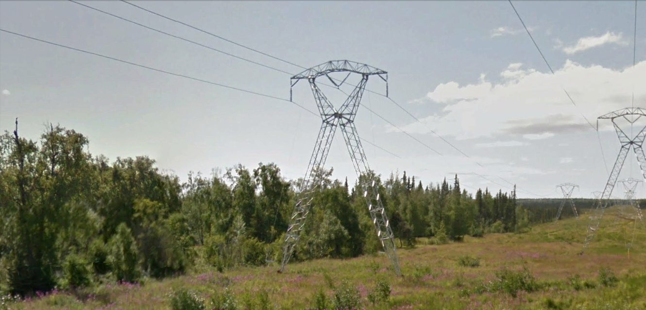 Power lines from Alaska's Beluga power station, transmitting at 230 kV, as viewed from Point Mackenzie road.